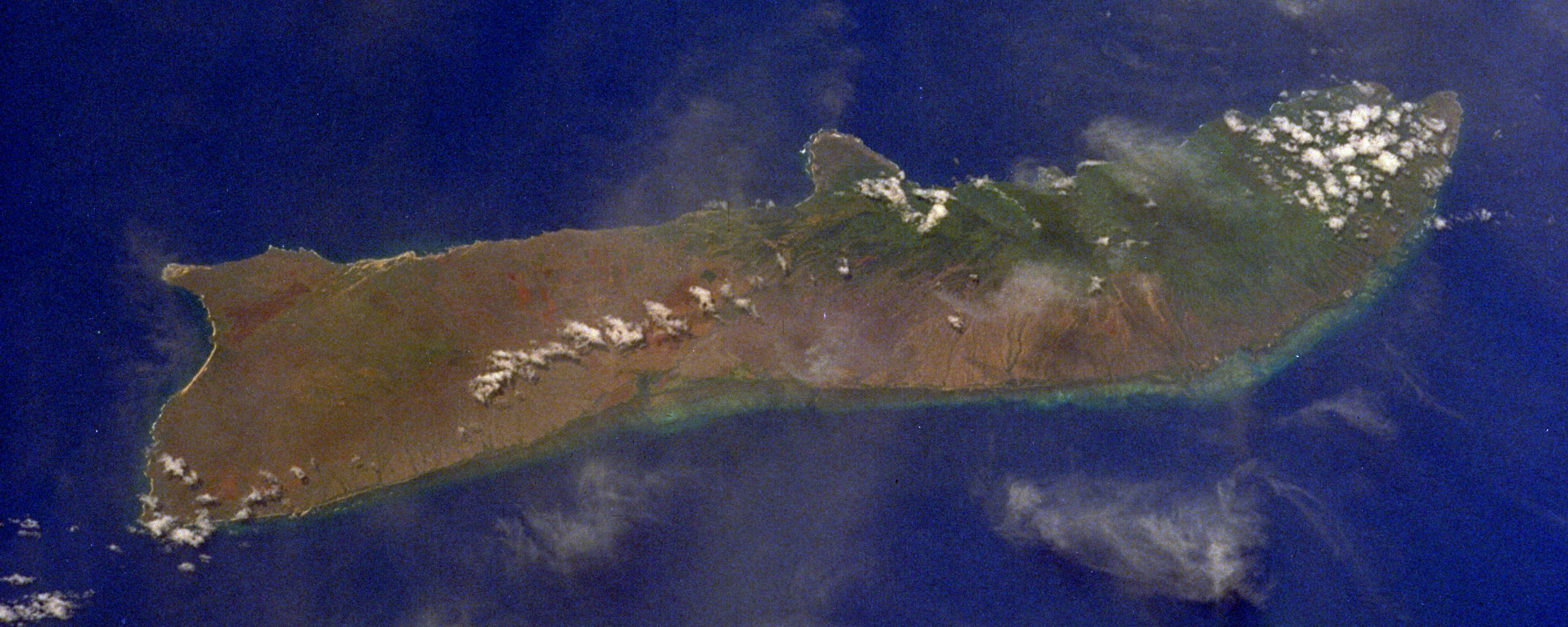 Satellite picture of Moloka'i (Hawaii)